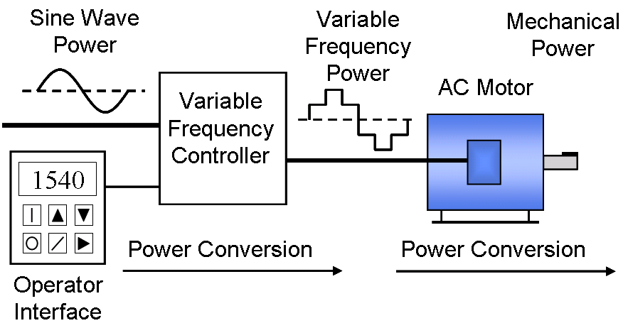 Excerpted from a copyrighted Powerpoint presentation and donated by the author